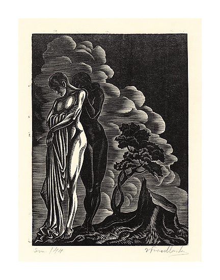 c. 1931, Wood Engraving Edition not stated. Signed and titled in pencil. Image size 7 1/2 x 5 1/2 inches (192 x 140 mm); sheet size 9 13/16 x 7 3/8 inches (250 x 189 mm). A good impression, on cream Japan, with full margins (7/16 to 1 3/8 inches), in excellent condition. Illustration to Shakespeare's Sonnet CXLIV, "Two loves I have for comfort and despair…"